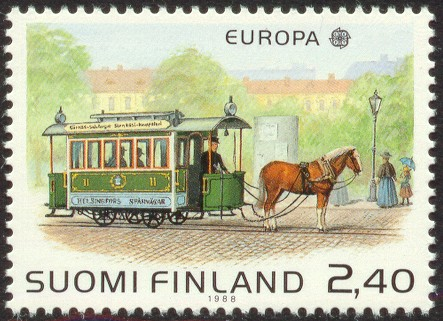 Postage stamp depicting a horse-driven tram in Helsinki 1890-1900